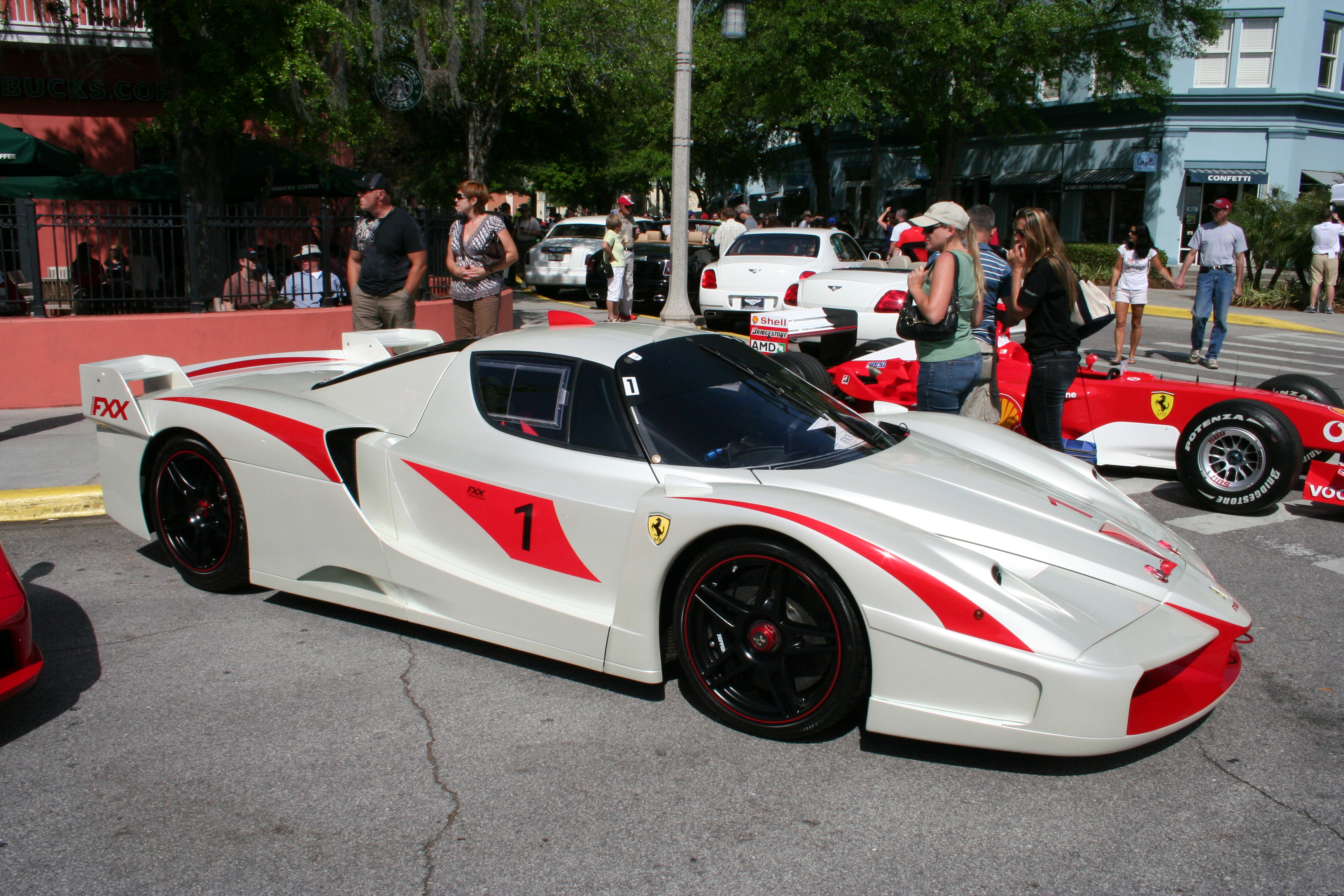 Ferrari FXX side view.